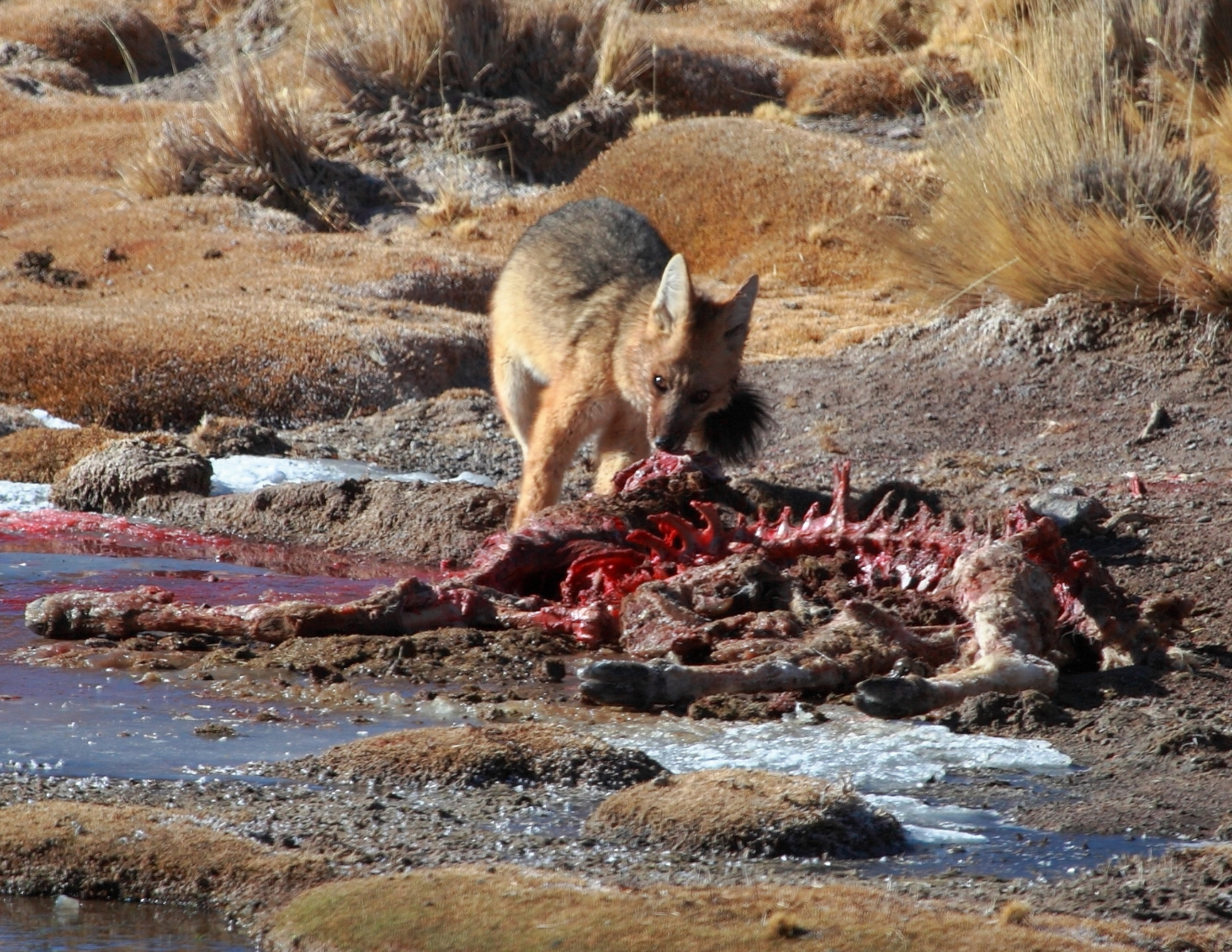 Culpeo eating a vicuña at El Tatio - San Pedro de Atacama - Chile